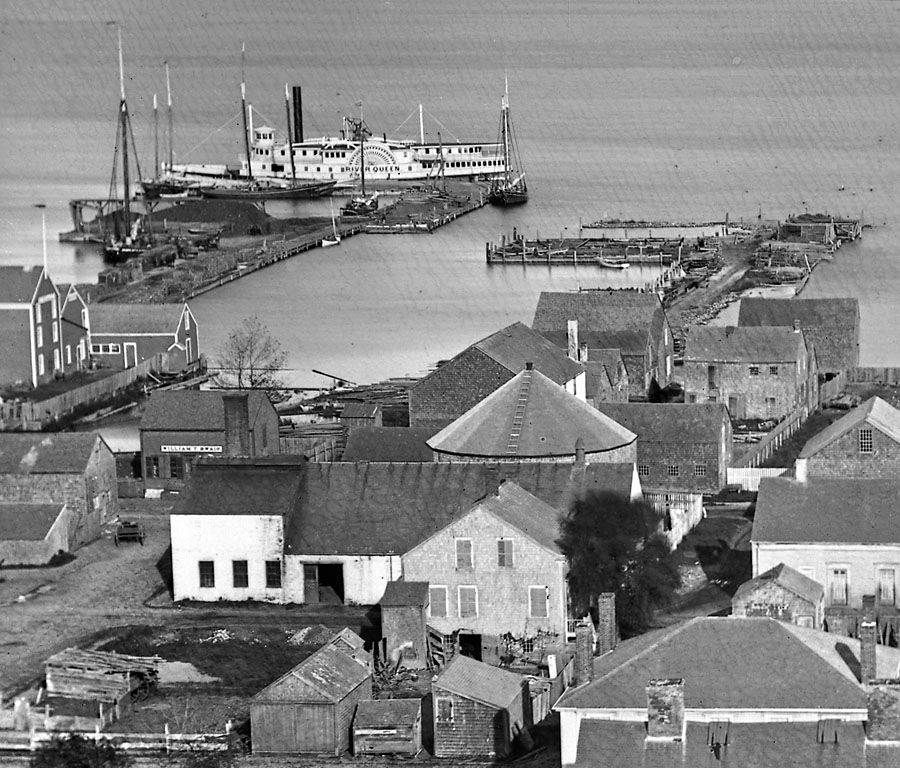 Sidewheel steamer River Queen at the wharf in Nantucket, probably taken during the late 1860s. This is a detail from a stereograph by Charles H. Shute & Son, Edgartown, MA photographers.